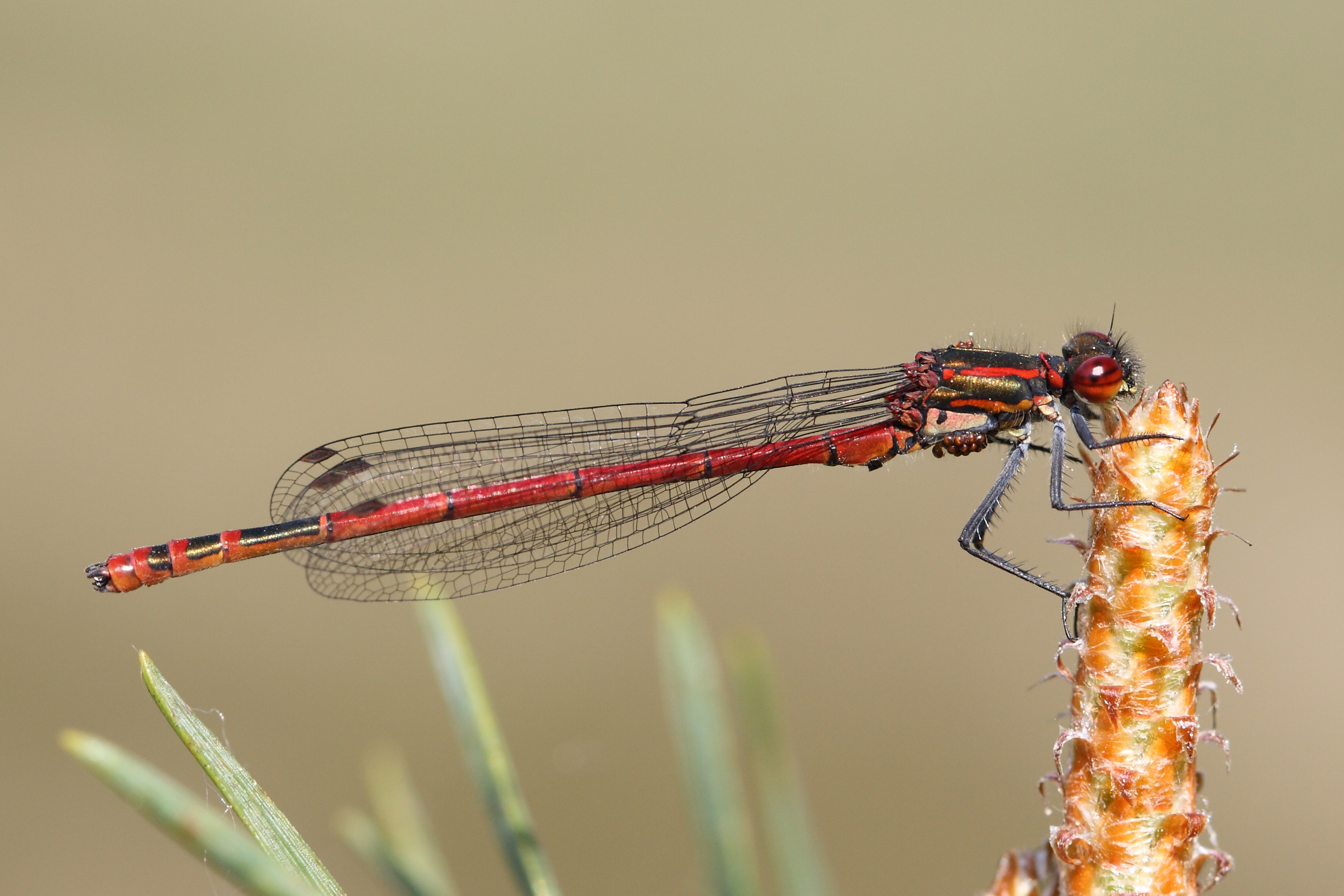 A male of the Large Red Damselfly (Pyrrhosoma nymphula) in the Ahlenmoor, a peatland in northern Lower Saxony, Germany. The damselfly is parasitized by water mites (Arrenurus spp.).